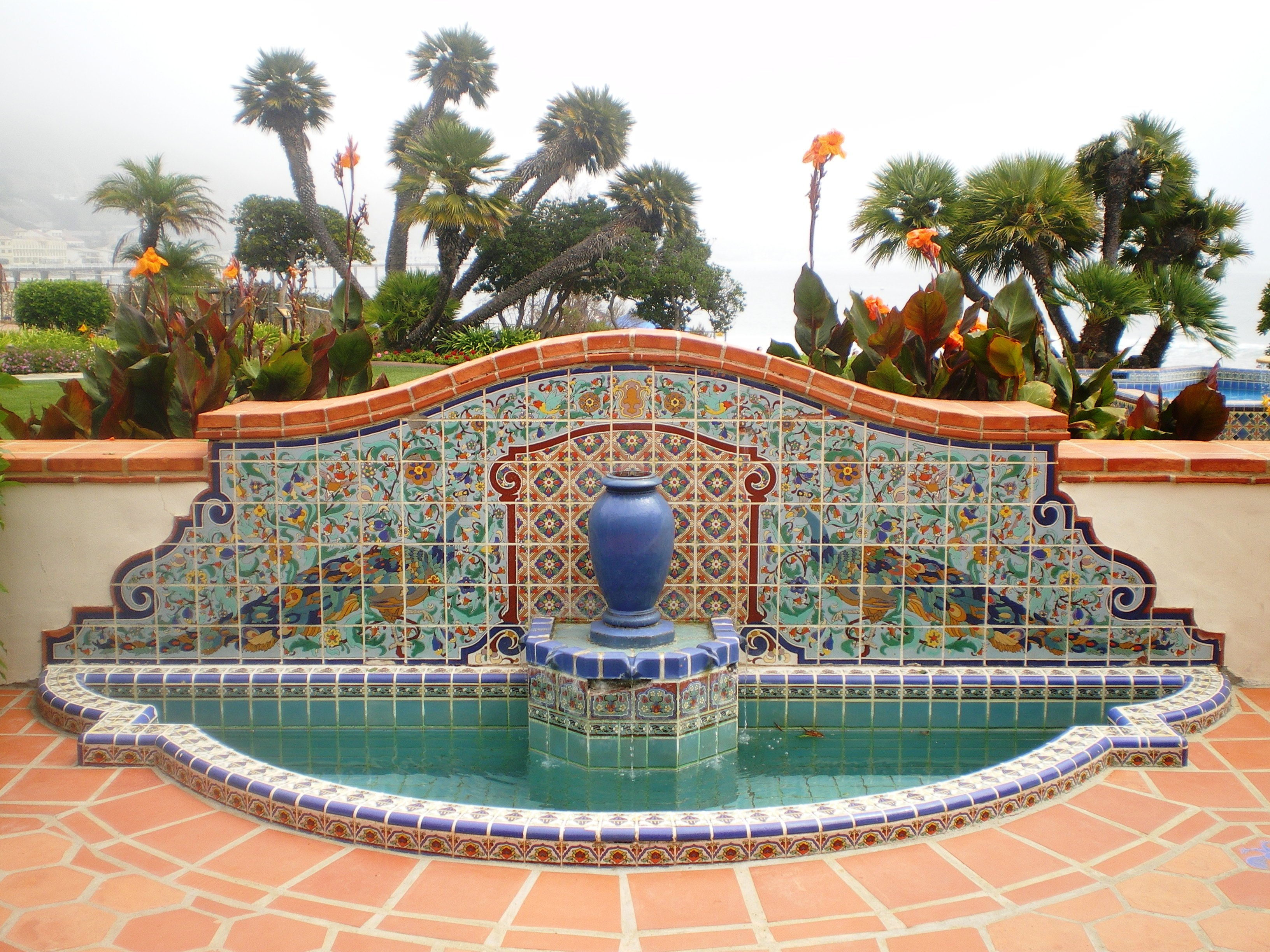 Tiled 'Peacock Fountain'at Adamson House, Pacific Coast Highway, Malibu, California